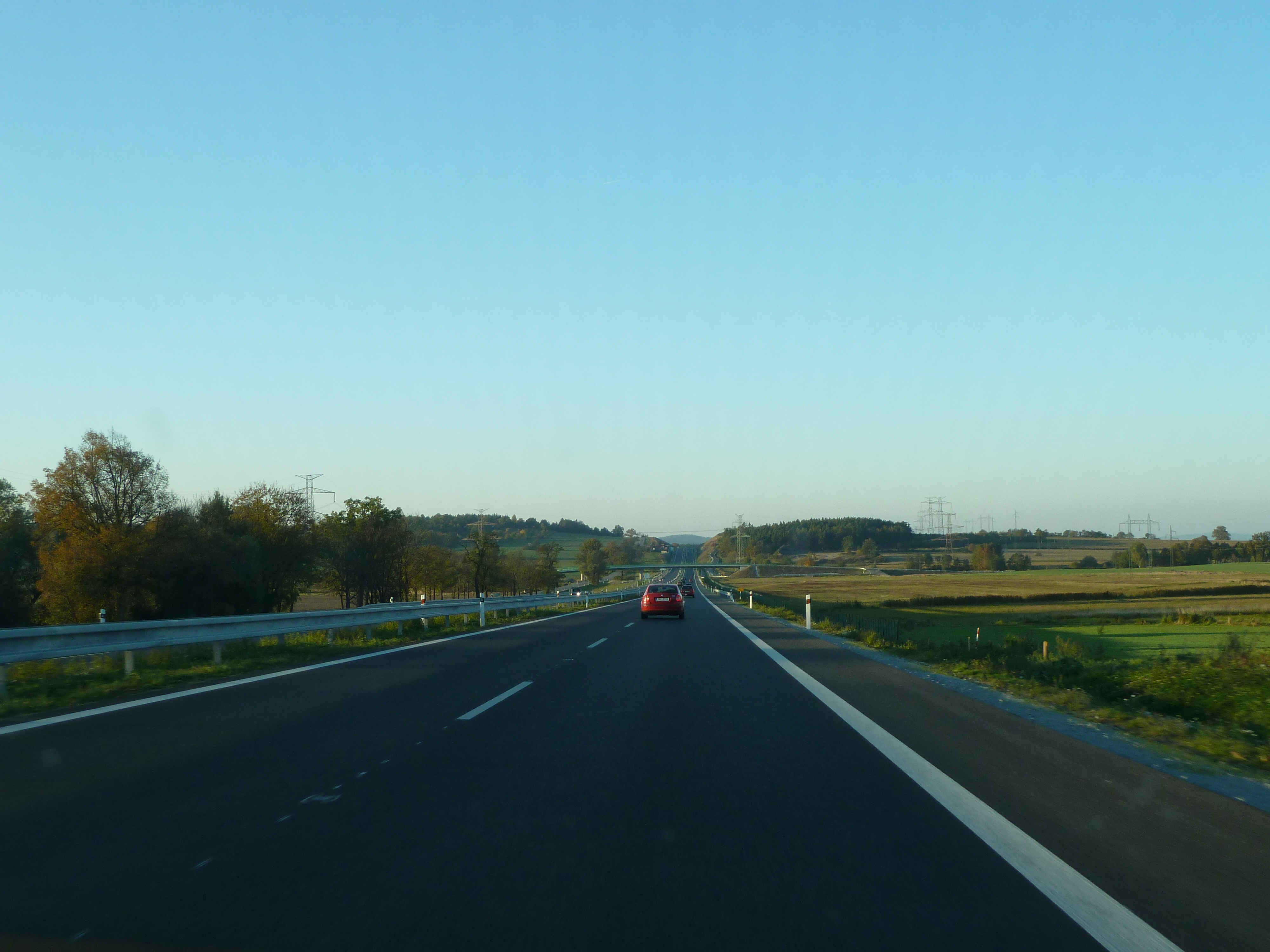 New expressway R4 near Předotice, district Písek, Czech republic.